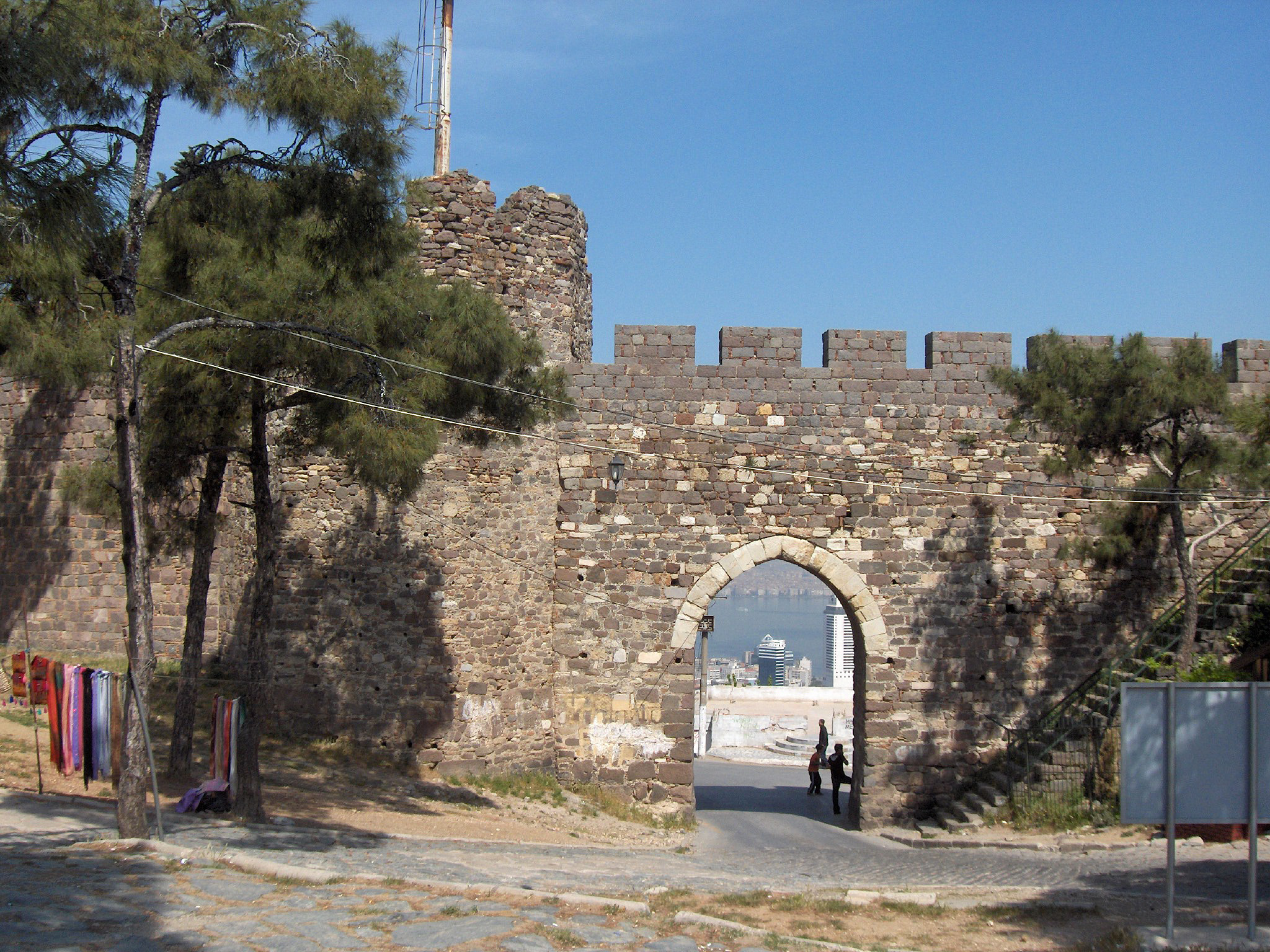 Gate of the castle built by Lysimachos about 300 BC; Kadifekale (Izmir, Turkey); built in the period of Alexander the Great